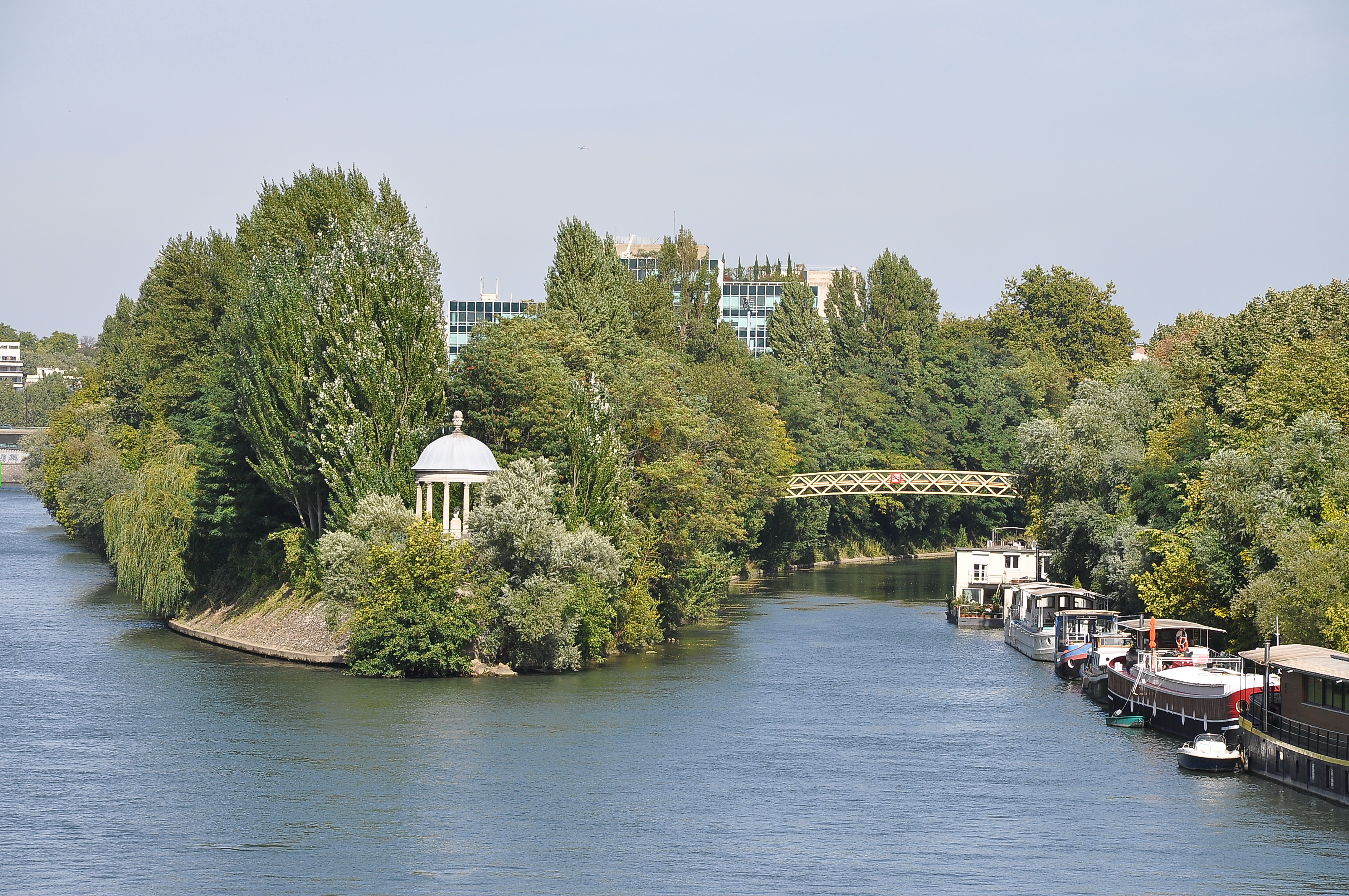 Temple de l'Amour at the Jatte Island in Neuilly-sur-Seine, suburb of Paris, France. .